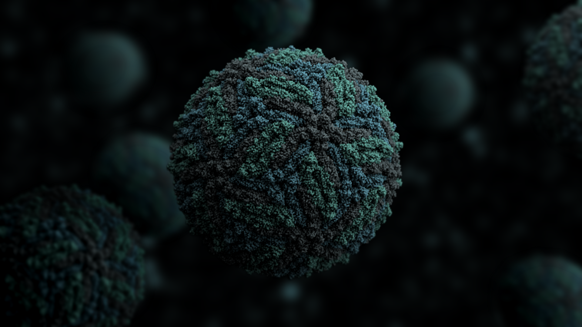 3D representation of a Zika virus.